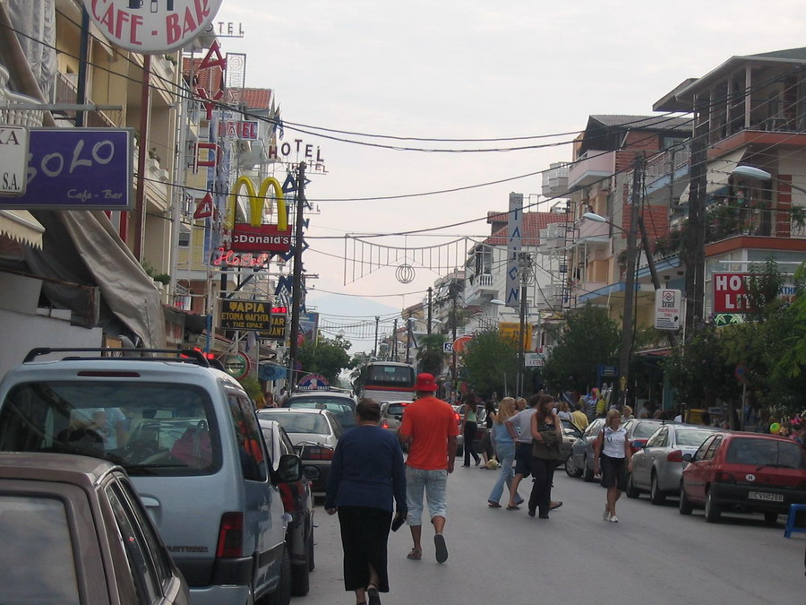 Busy Street in Katerini, Pieria, Greece. Photo taken in 2006.